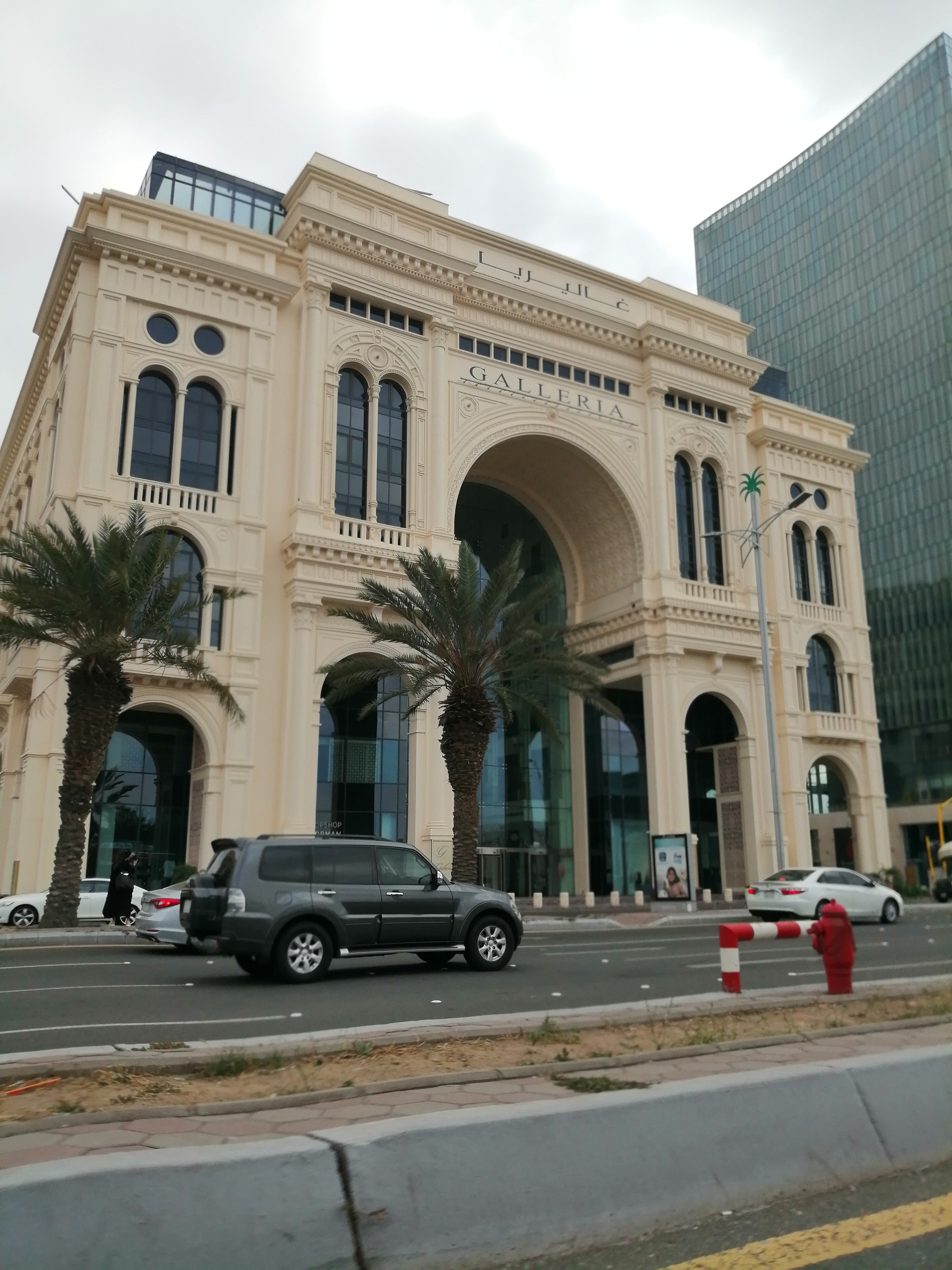 Jeddah Galeria